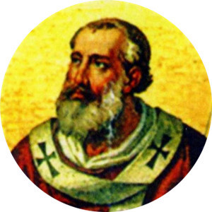 Portait of Pope Constantine in the Basilica of Saint Paul Outside the Walls, Rome